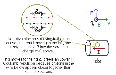 This shows how the length-contracted Coulomb force is the cause of magnetic fields, and also the cause of magnetic forces on moving charges. Both of these result from (and act on) current-elements qv=IΔs, which include moving charges (that may also exert electrostatic forces) and currents in neutral wires (that exert no electrostatic forces). If the positive charge q in the figure moves to the right, it feels an upward Coulomb repulsion because to that moving charge protons (drawn red in the magnified circle) of atoms in the neutral wire below appear closer together due to length contraction than do the uncontracted electrons (drawn blue in the magnified circle) moving along with q.